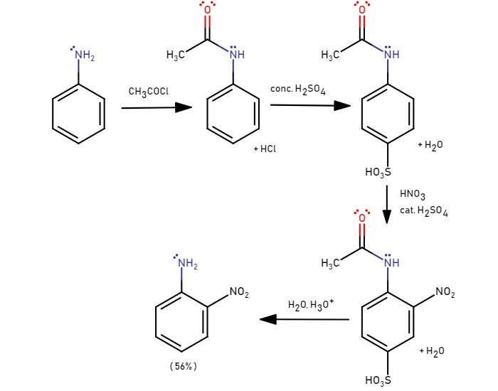 see o-nitroaniline synthesis